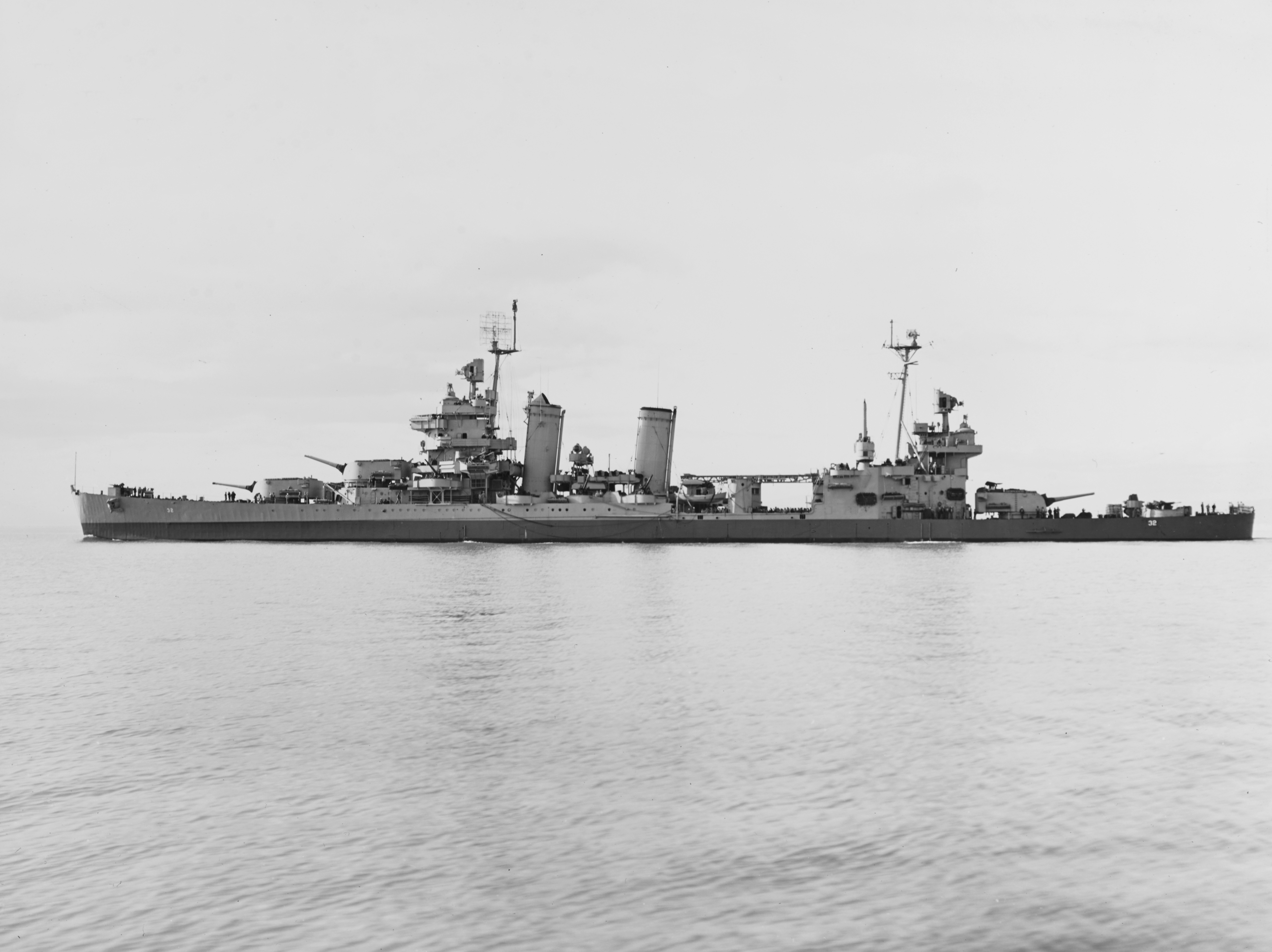 The U.S. Navy heavy cruiser USS New Orleans (CA-32) off the Mare Island Naval Shipyard, California (USA), on 8 March 1945, following her last wartime overhaul. The port catapult has been removed.